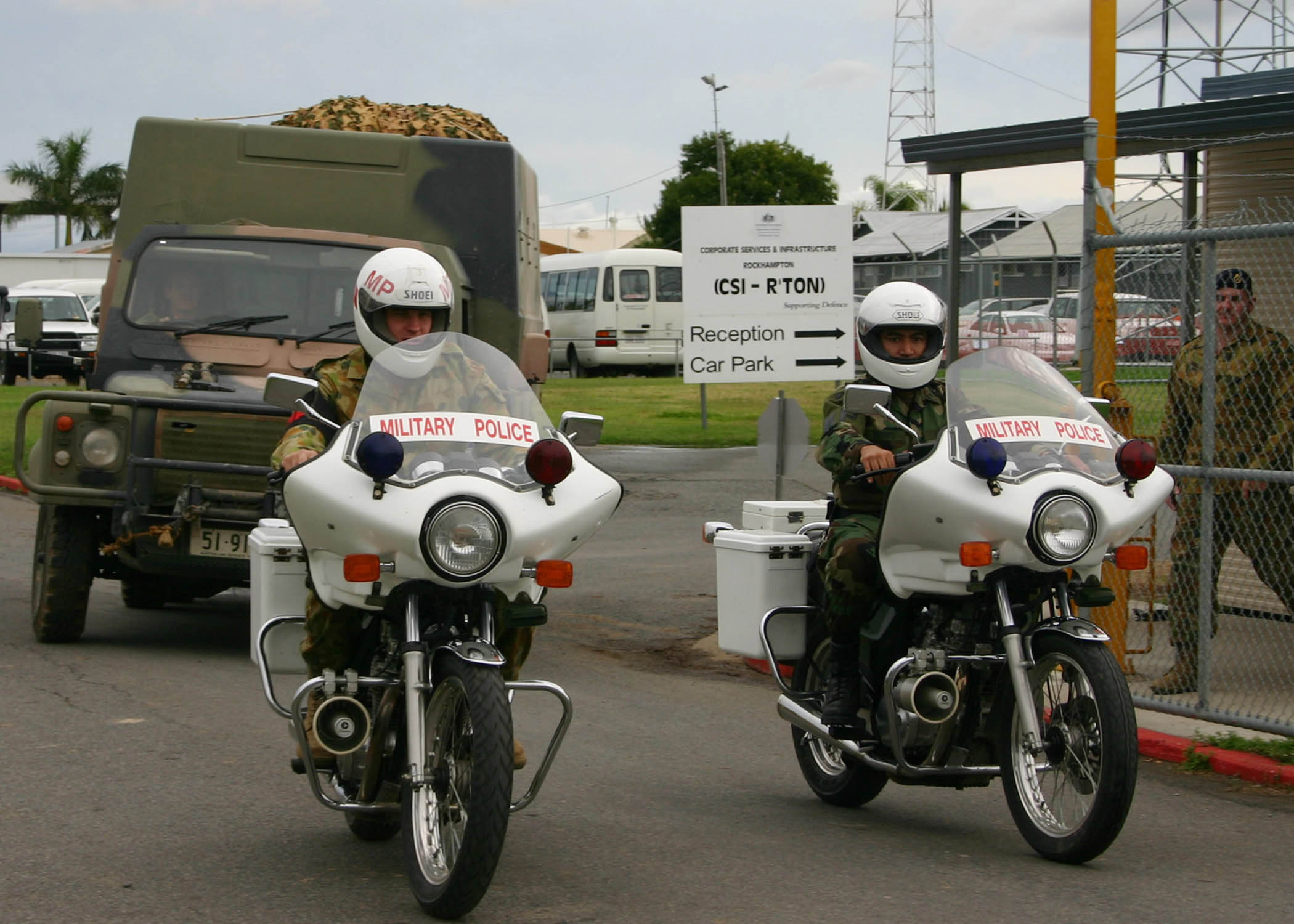 Australian army Perentie Land Rover and two military police motorcycles. Original caption: "Camp Rocky, Queensland, Australia (June 21, 2005) -- Cpl. Paul Vandermeer (left) of the First Battalion, Royal Australian Corps of Military Police and Master-at-Arms 3rd Class David Espiritu (right) of Navy Security Force for Navy Region Southwest provide convoy escort from Camp Rocky in support of exercise Talisman Saber 2005. Talisman Saber is a four-week biennial exercise to conduct collective training and practice inter-operability between U.S. and Australian forces while further developing the capability to undertake joint, combined operations and helping to build regional security. More than 17,000 personnel from Navy, Army, Air Force, Marine and Special Forces units are participating in Talisman Saber. "